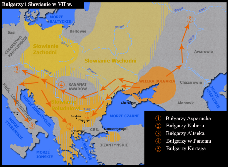 Bulgarians and Slavs VII century